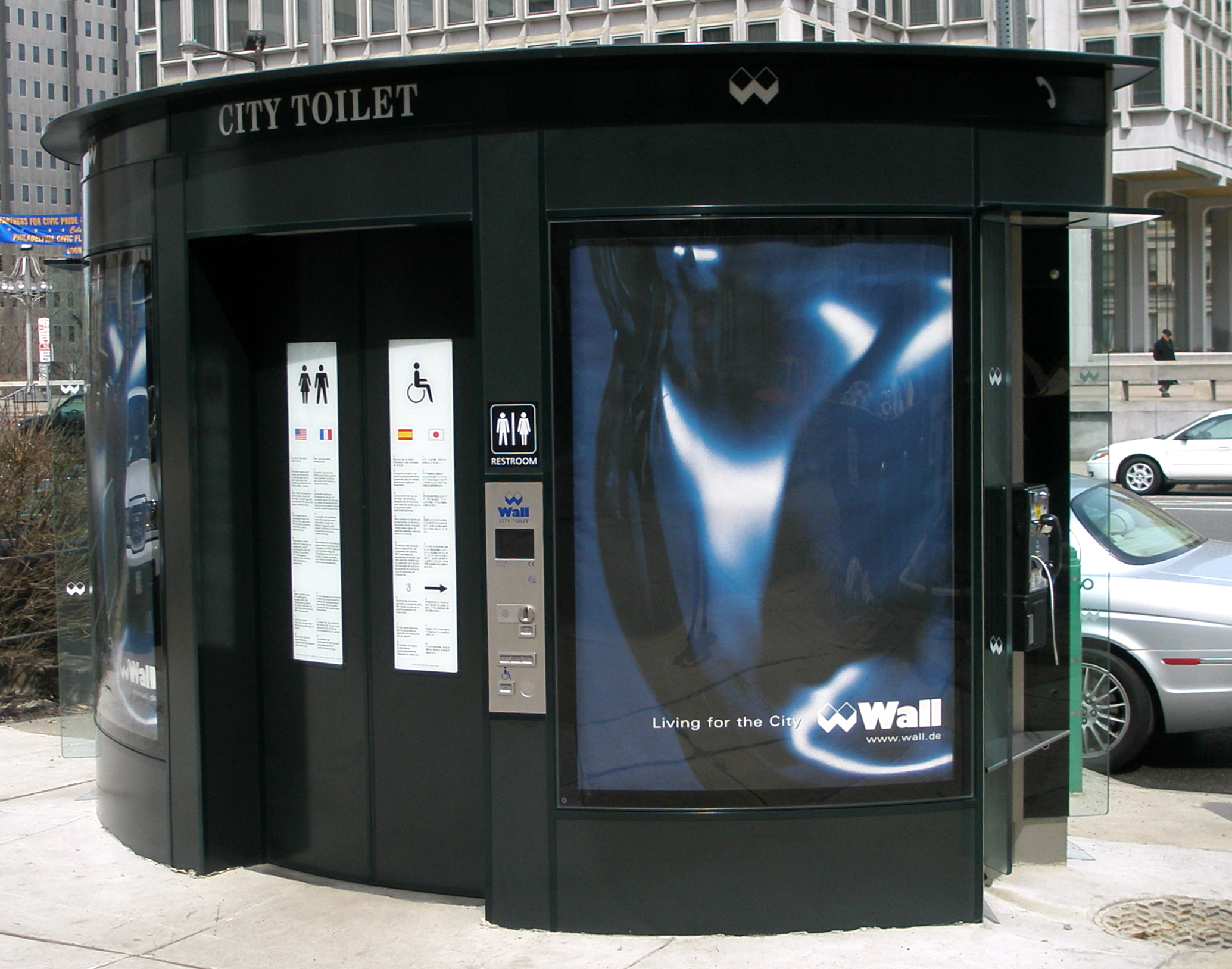 Public Toilet in Philadelphia, outside Philadelphia City Hall.